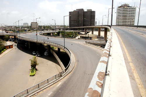 A view of the streets in Karachi that were left deserted on 12 May 2007 soon after the Black Saturday riots broke out.